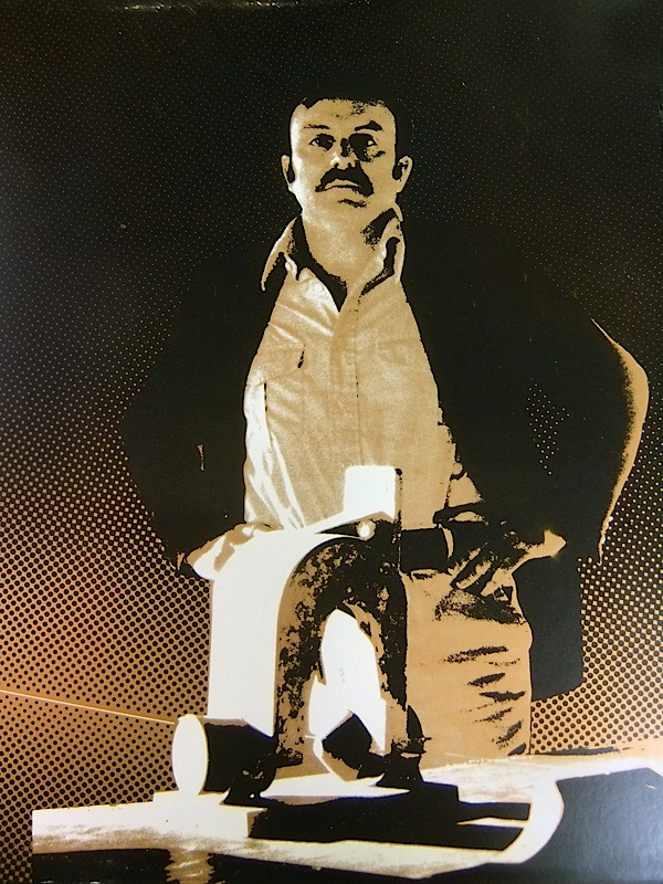 Detail of the LP cover of Alvin Lucier: Music on a Long Thin Wire (Lovely Music 1011/12, 1980) showing Lucier standing behind the large horseshoe magnet used to induce vibrations to the wire.